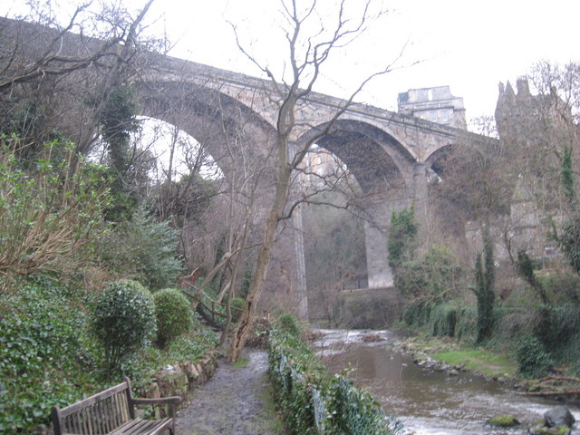 Dean Bridge Looking downstream from Dean Gardens.